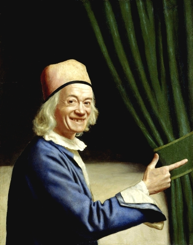 Liotard Laughing